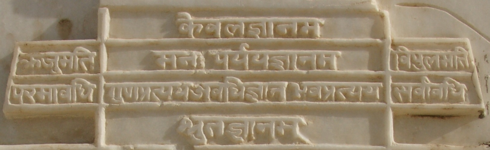 Types of Knowledge KevalaJnāna Śrutajñāna